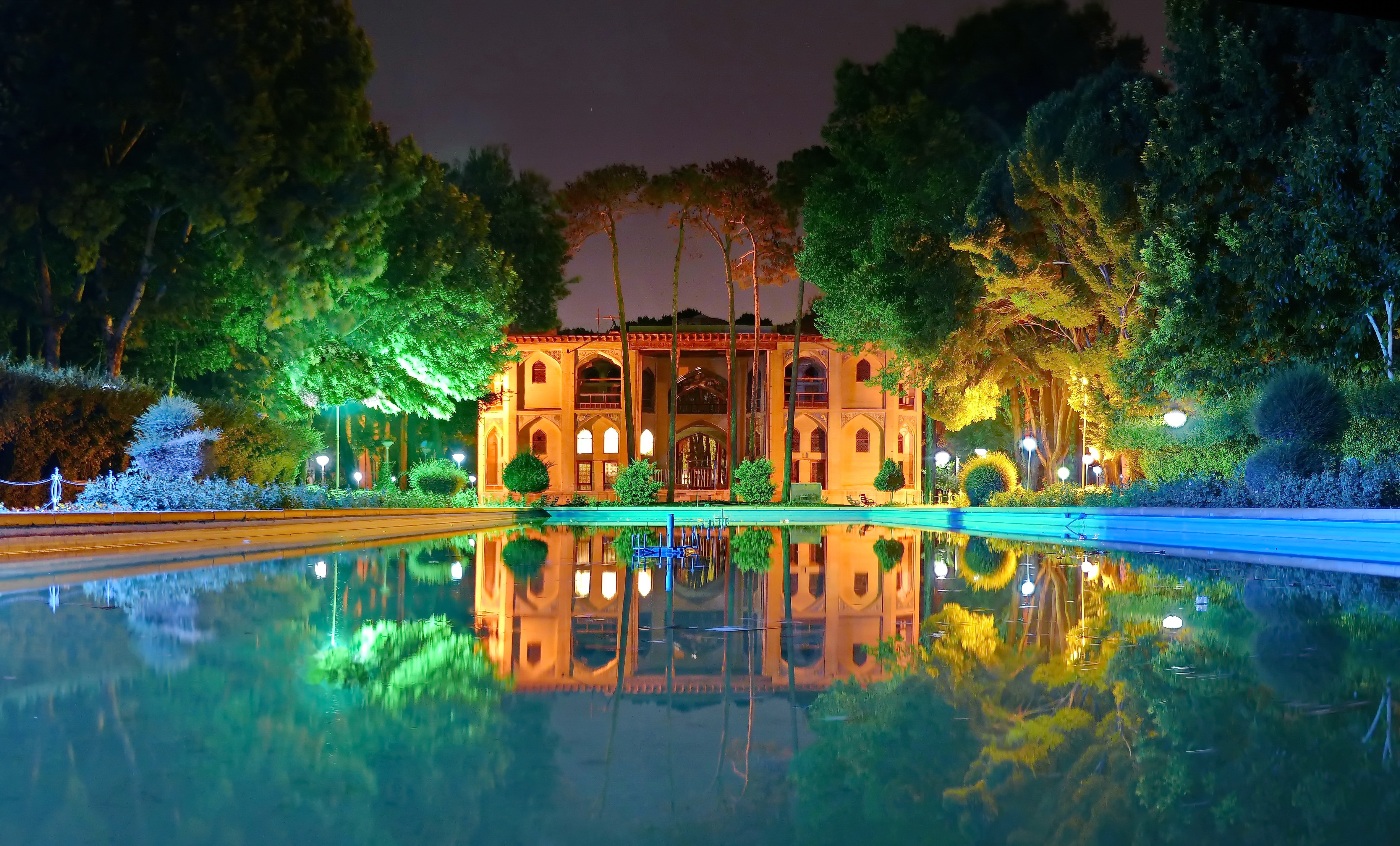 Hasht Behesht palace is a Safavid monument in Isfahan